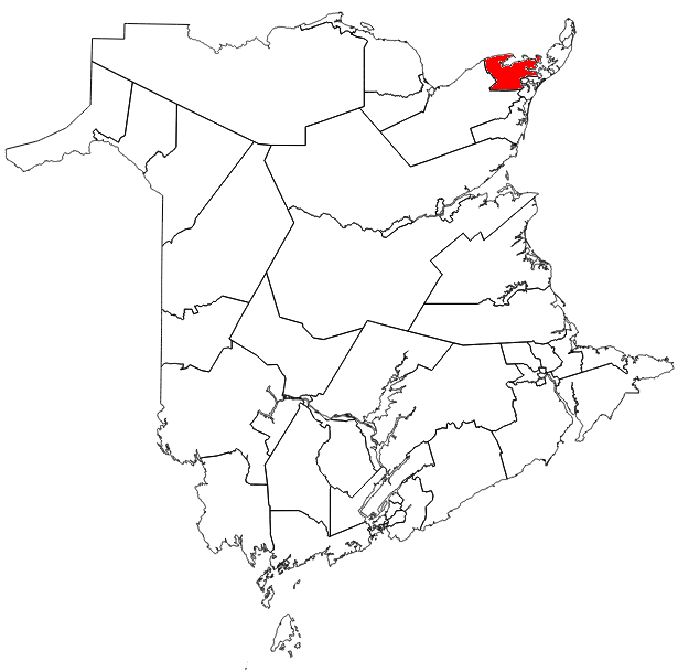 The riding of Caraquet in relation to other New Brunswick electoral districts.